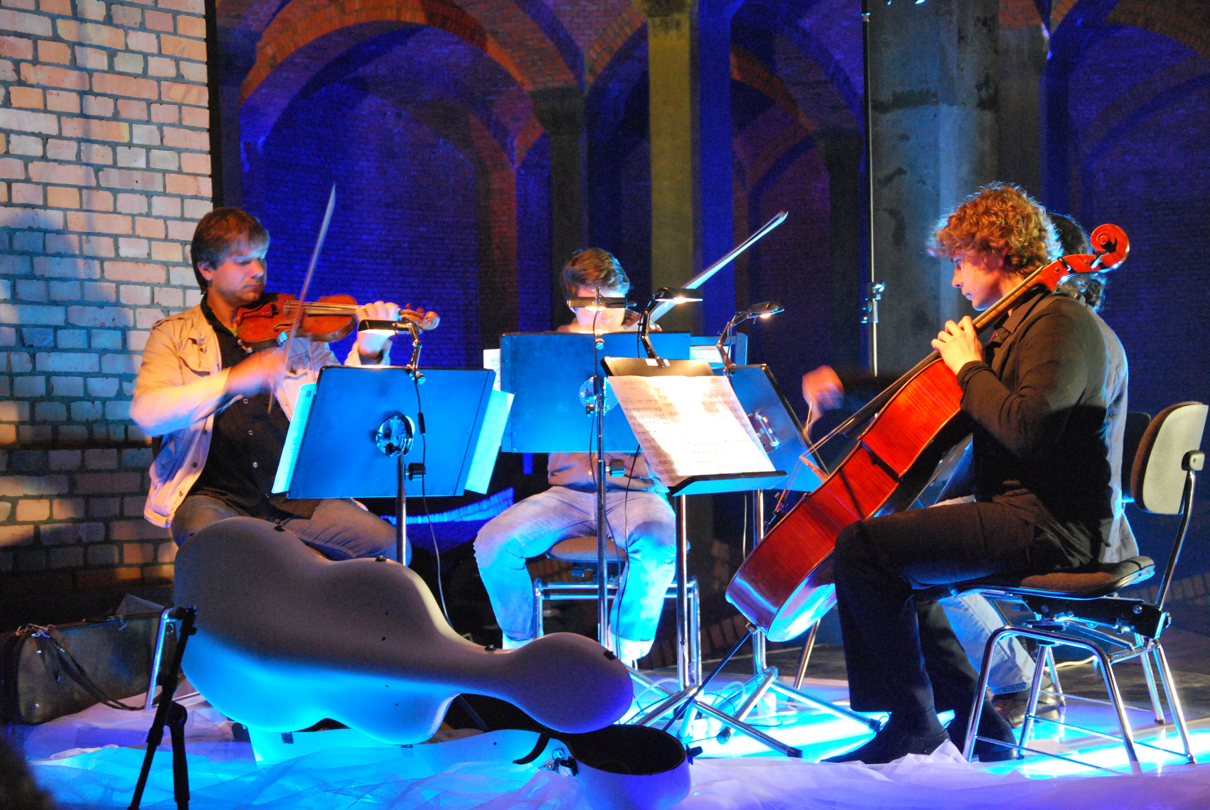 String quartet into underground water tank in Stoki, Łódź